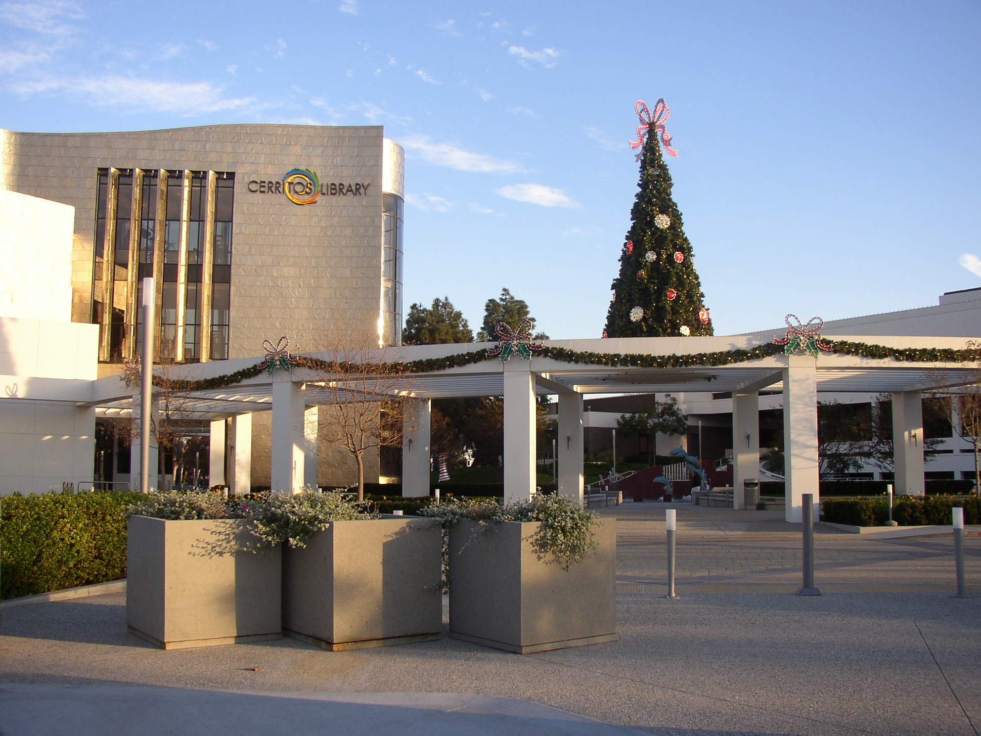 Photographer AllyUnion must be credited.